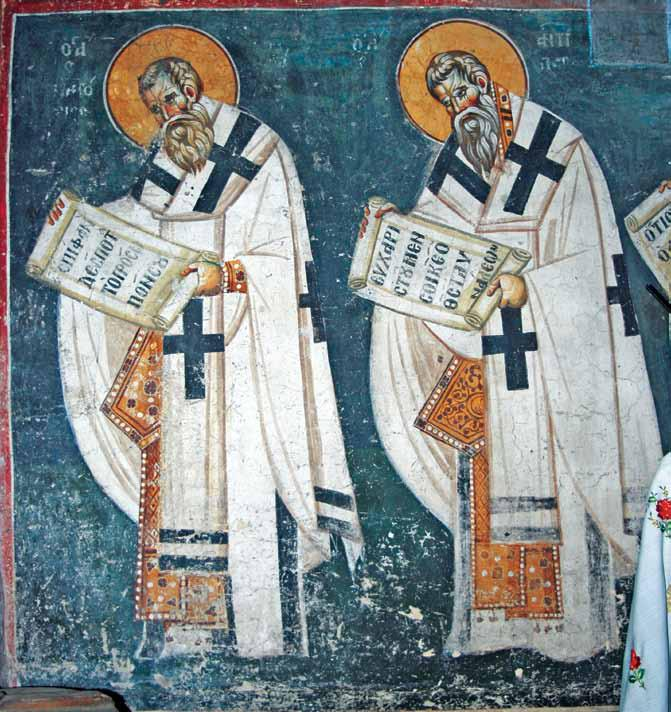 Fresco of St. Gregory of Agrigentum and St. Antipas of Pergamon, south wall of diakonikon in Church of the Theotokos Peribleptos in Ohrid, Macedonia